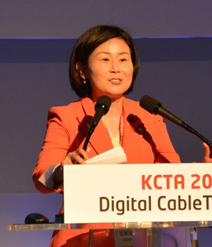 Kim Hee-jung at KCTA 2013